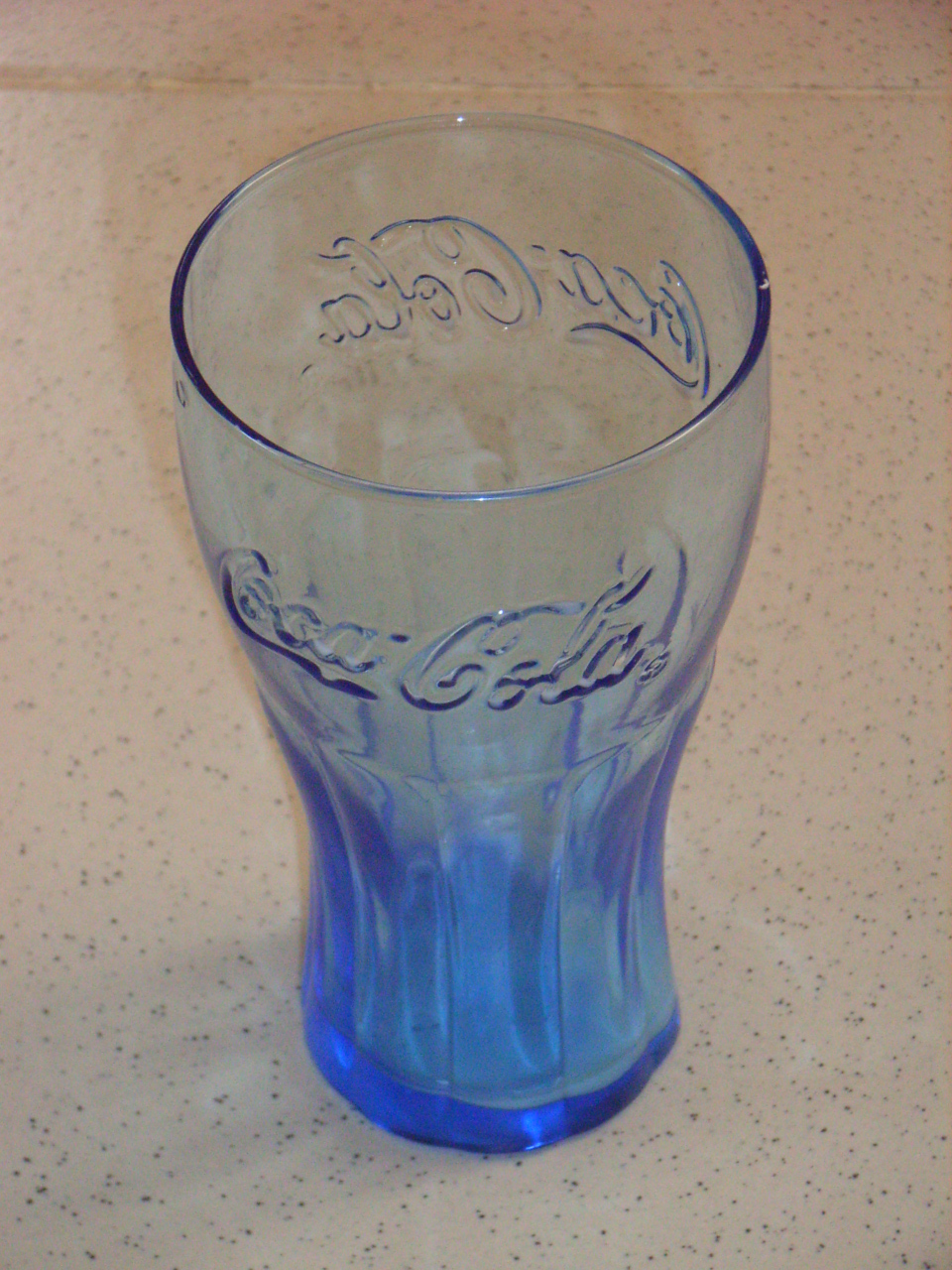 香港zh:麥當勞zh:套餐zh:贈品zh:可樂zh:玻璃zh:杯子